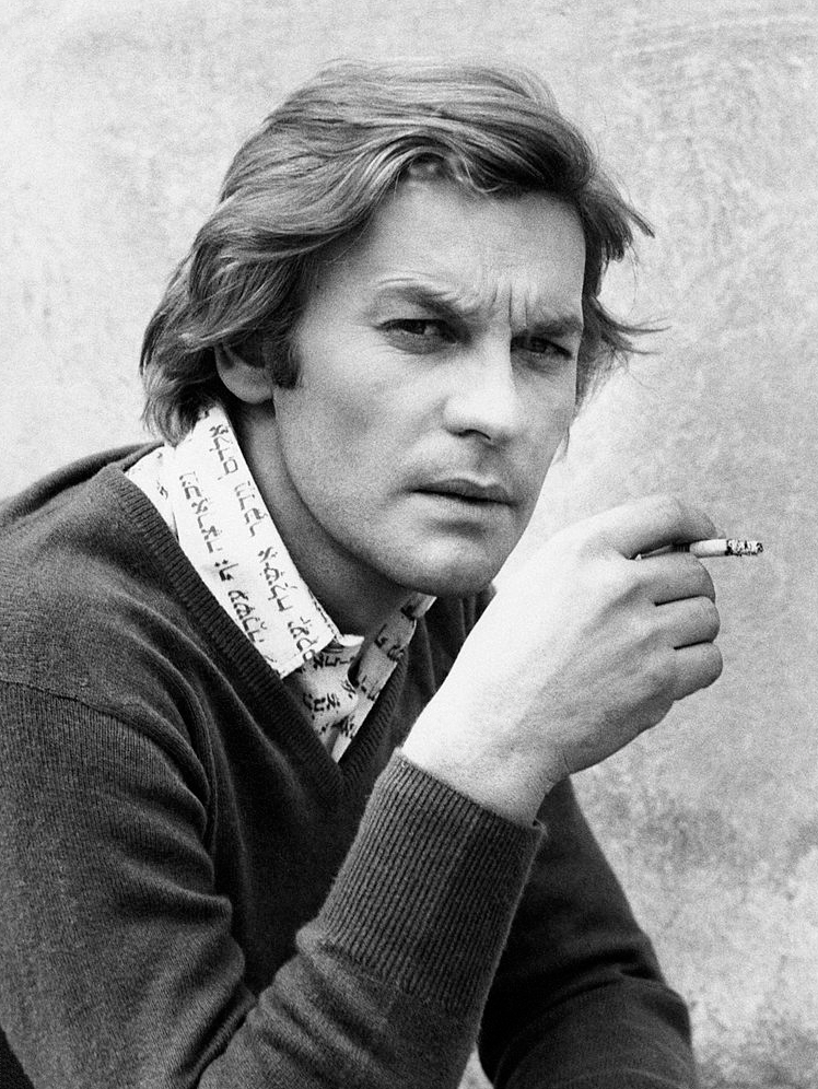 Portrait of Austrian actor Helmut Berger (Helmut Steinberger) in his house. Rome, 1974